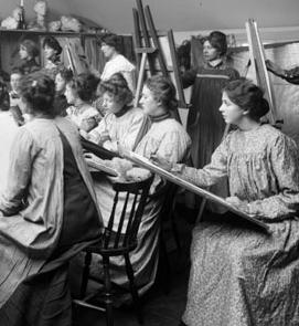 Elin Wallin at Althin's Art School, Grevgatan 26, Östermallm, Stockholm. Photo from 1903. The student Elin Wallin (1884-1969) is sitting in the middle with a dark head scarf. This is a cropped version from the original.